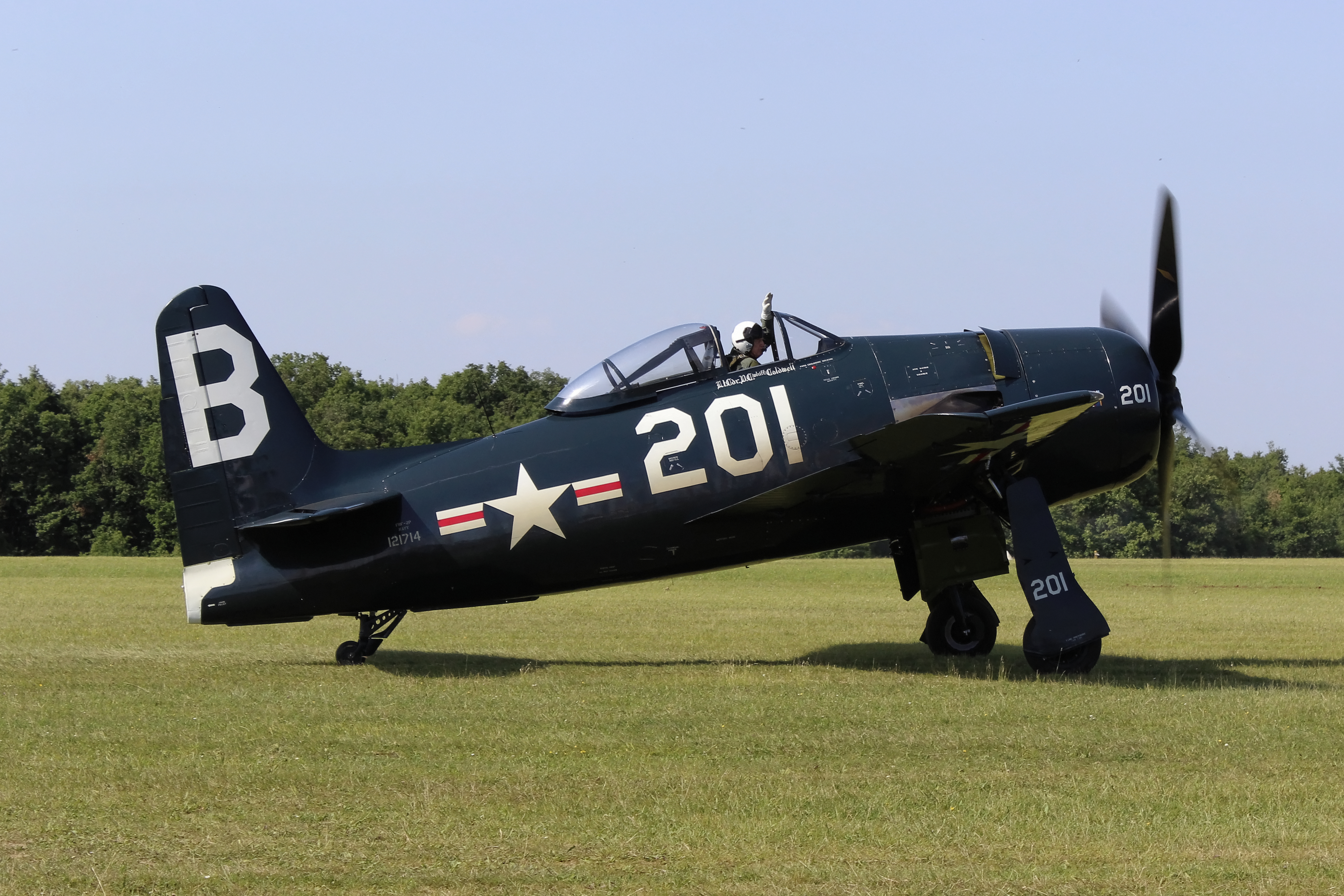 F8F Bearcat at the Ferté-Alais air show 2014.